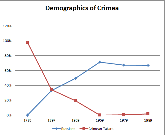 Demographics of Crimea from 1783 up until 1989. Sources: Drohobycky, Maria (1995). Crimea: Dynamics, Challenges and Prospects. Lanham: Rowman & Littlefield. ISBN 9780847680672. page 73. Tanner, Arno (2004). The Forgotten Minorities of Eastern Europe: The History and Today of Selected Ethnic Groups in Five Countries. Helsinki: East-West Books. ISBN 9789529168088. page 22.